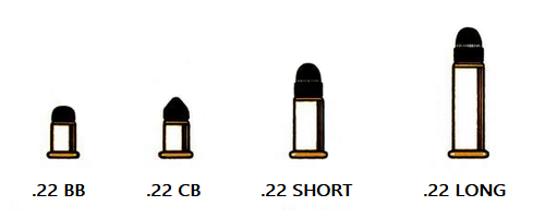 Technical sketch comparing sizes of .22 BB, .22 BC, .22 Short and .22 Long cartridges